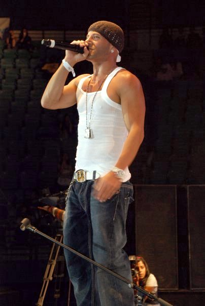 Karl singing in Radio 1 Party